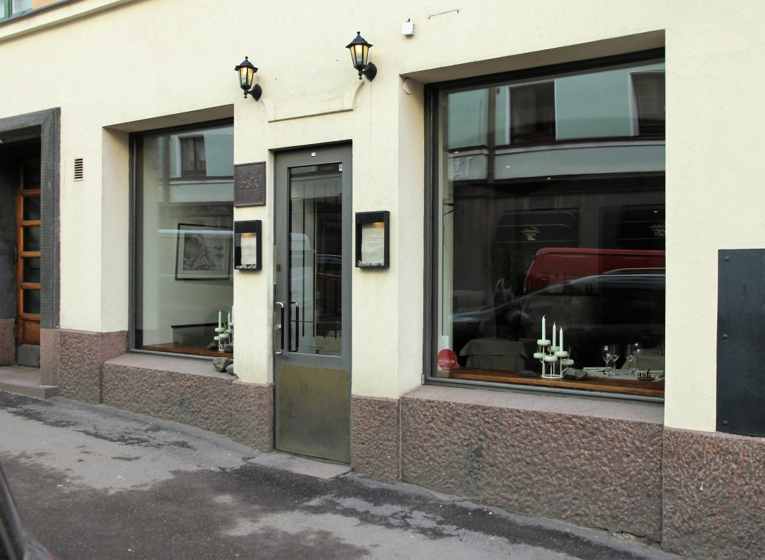 Restaurant Ask, Helsinki, Finland.